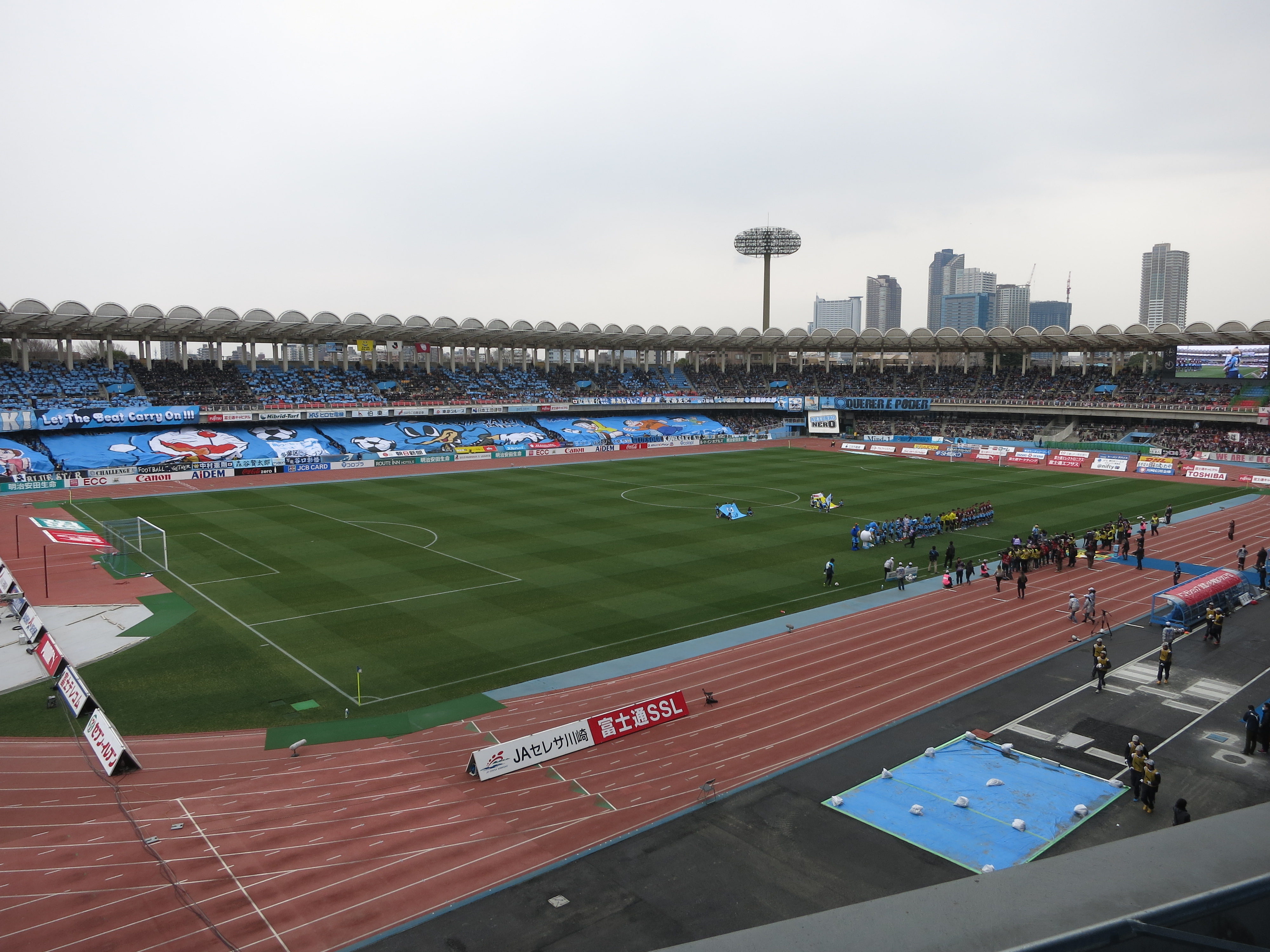 Todoroki Stadium